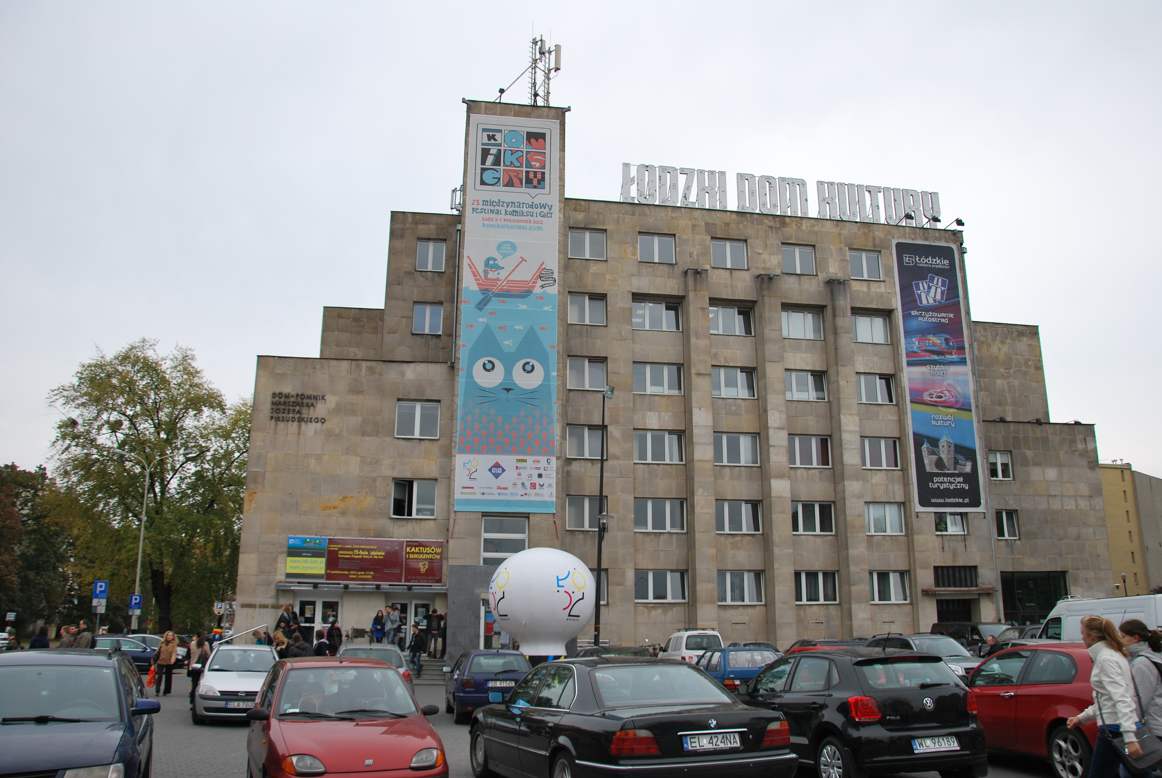 23 International Festival of Comics and Games in Łódź